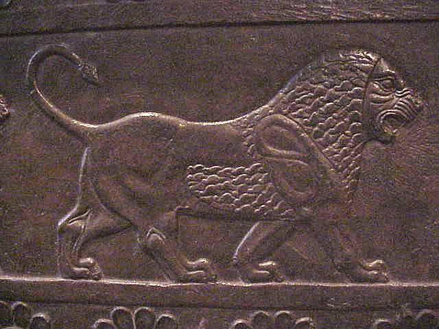 Persian wall relief, Persepolis, 522/465 BC, Oriental institute, ChicagoPersian wall relief